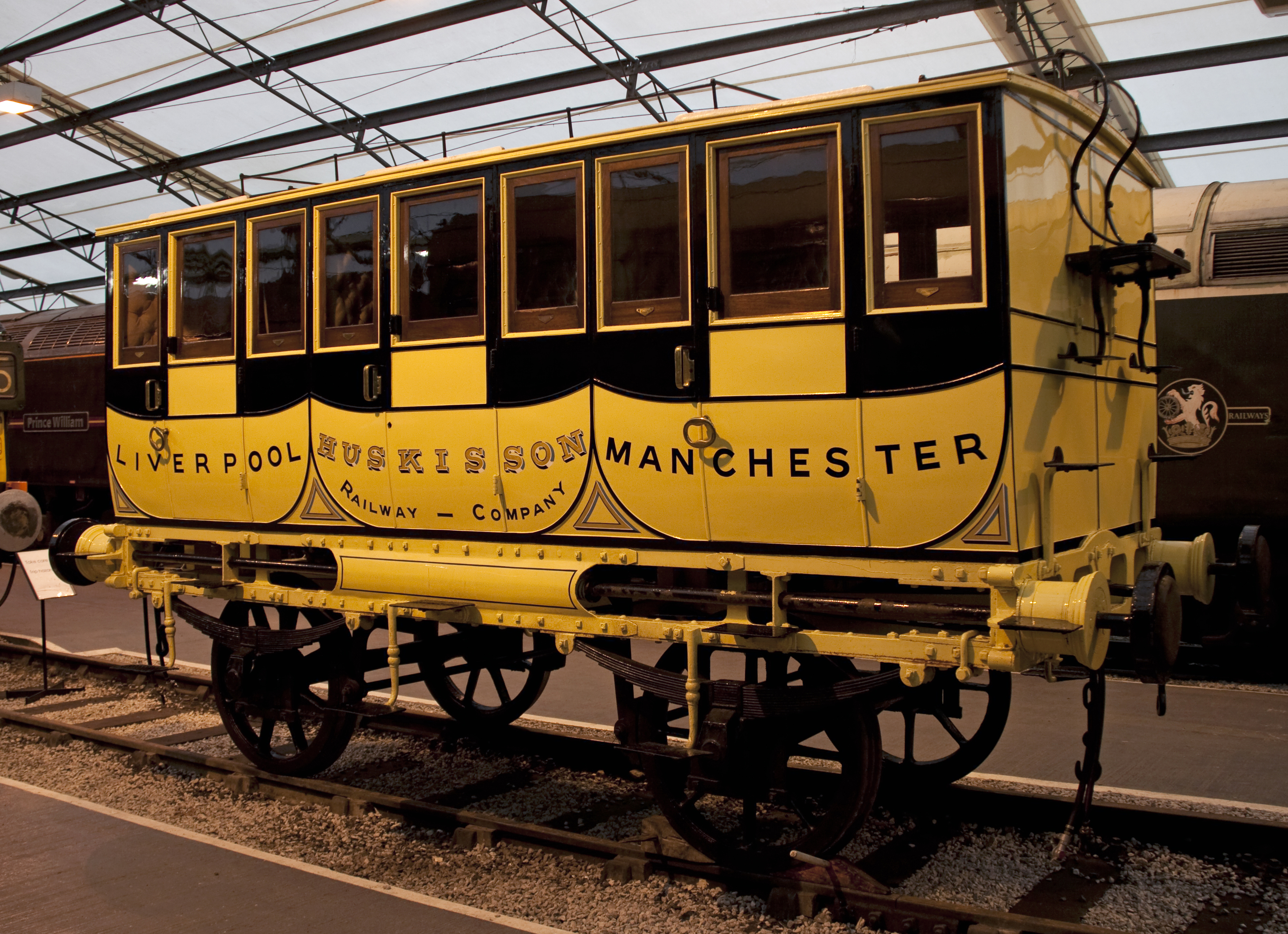 Repilica Rocket's Official Coach.